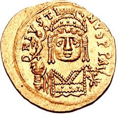 Justin II. 565-578 AD. AV Solidus (4.44 gm, 6h). Carthage mint. Dated RY(?) 6 (570/1 AD). D N IVSTINVS P P AV, diademed, helmeted, and cuirassed facing bust, holding globus cruciger and shield VICTORIA AVGGG, Constantinople seated facing, head right, holding spear and globus cruciger; S/CONOB. DOC I 190d; Morrisson, Carthage 15-17 (dies unlisted); MIB II 18b; SB 391. Morrisson interprets the dates on Carthage solidi of Justin II as regnal years, while Hahn in MIB sees them as cyclical indictional years, the form used in late Carthage gold.